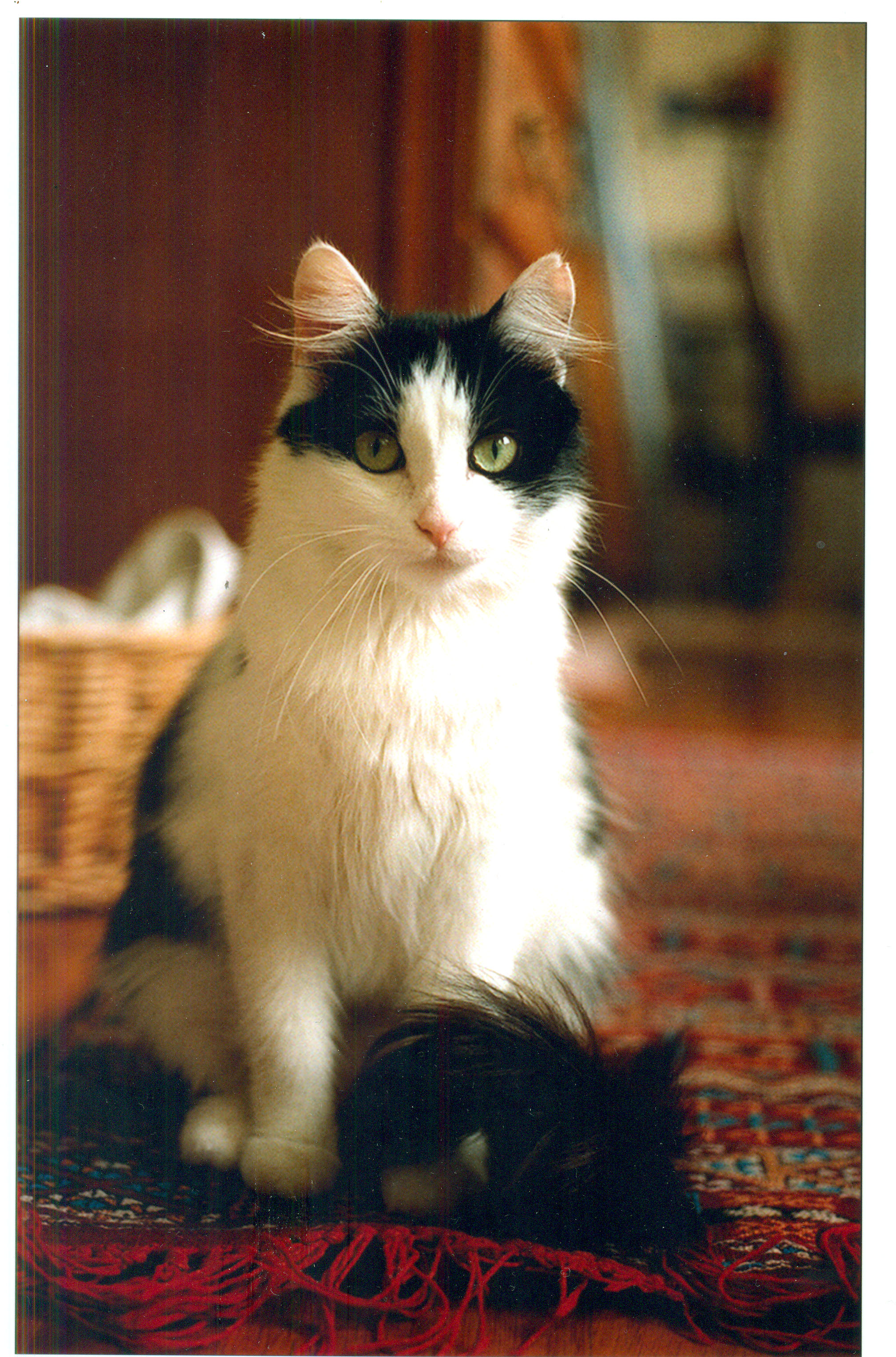 TUXEDO CAT BLACK AND WHITE on rug. Photo by Nancy Wong, 1995